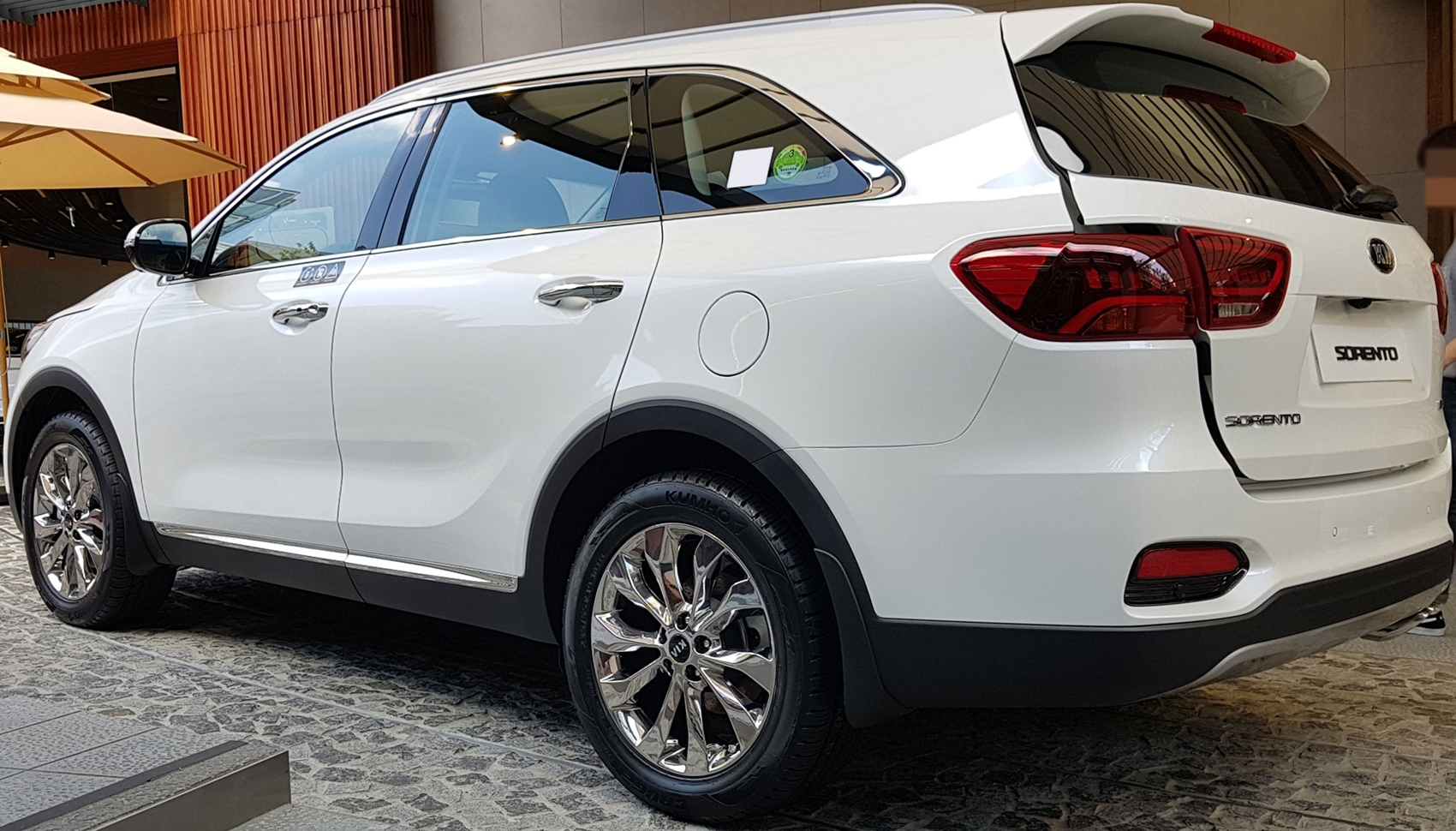 Kia The New Sorento